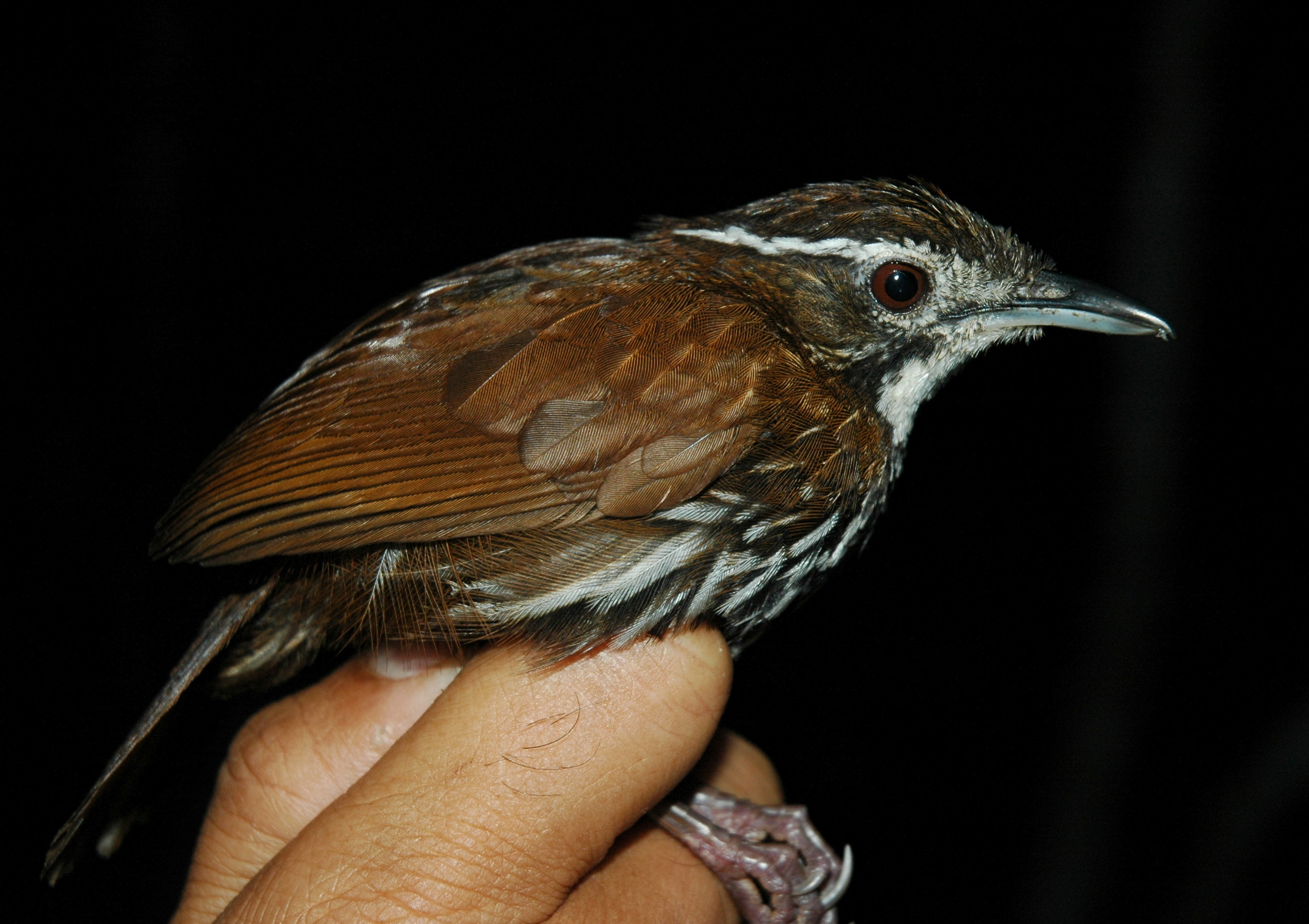 Streaked ground babbler (Ptilocichla mindanensis?)